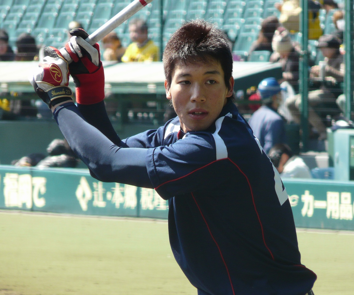 Tetsuto Yamada, infielder of the Tokyo Yakult Swallows, at Hanshin Koshien Stadium.